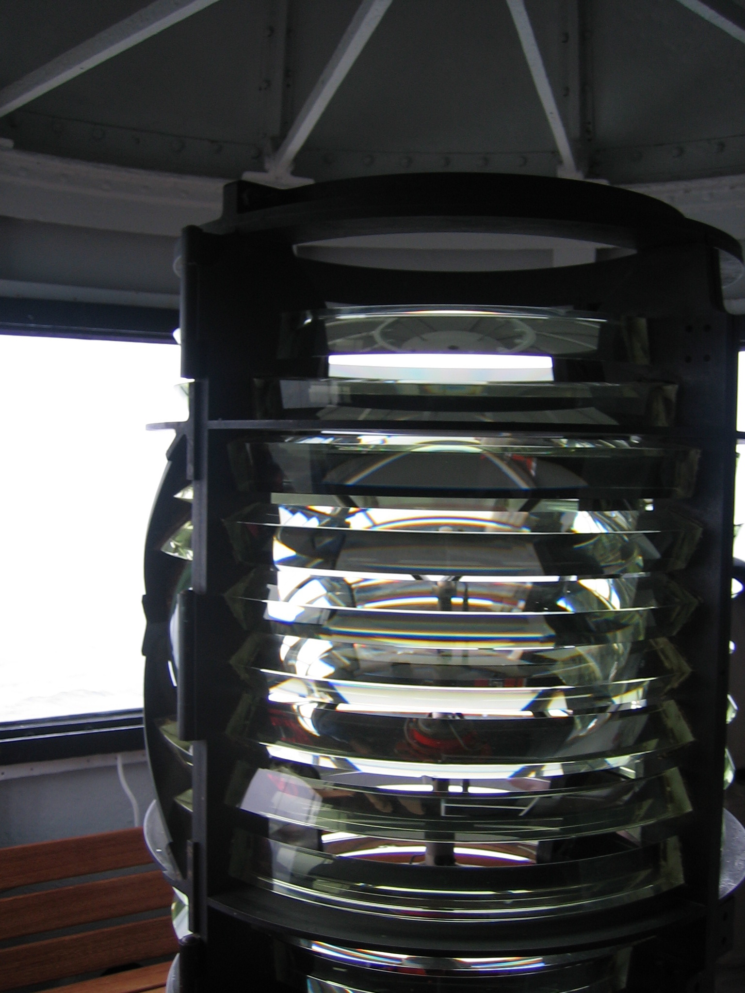 This is a self-taken picture of the lightfire Roter Sand near the german coast, near Bremerhaven. Photograph by Tim Rausch.